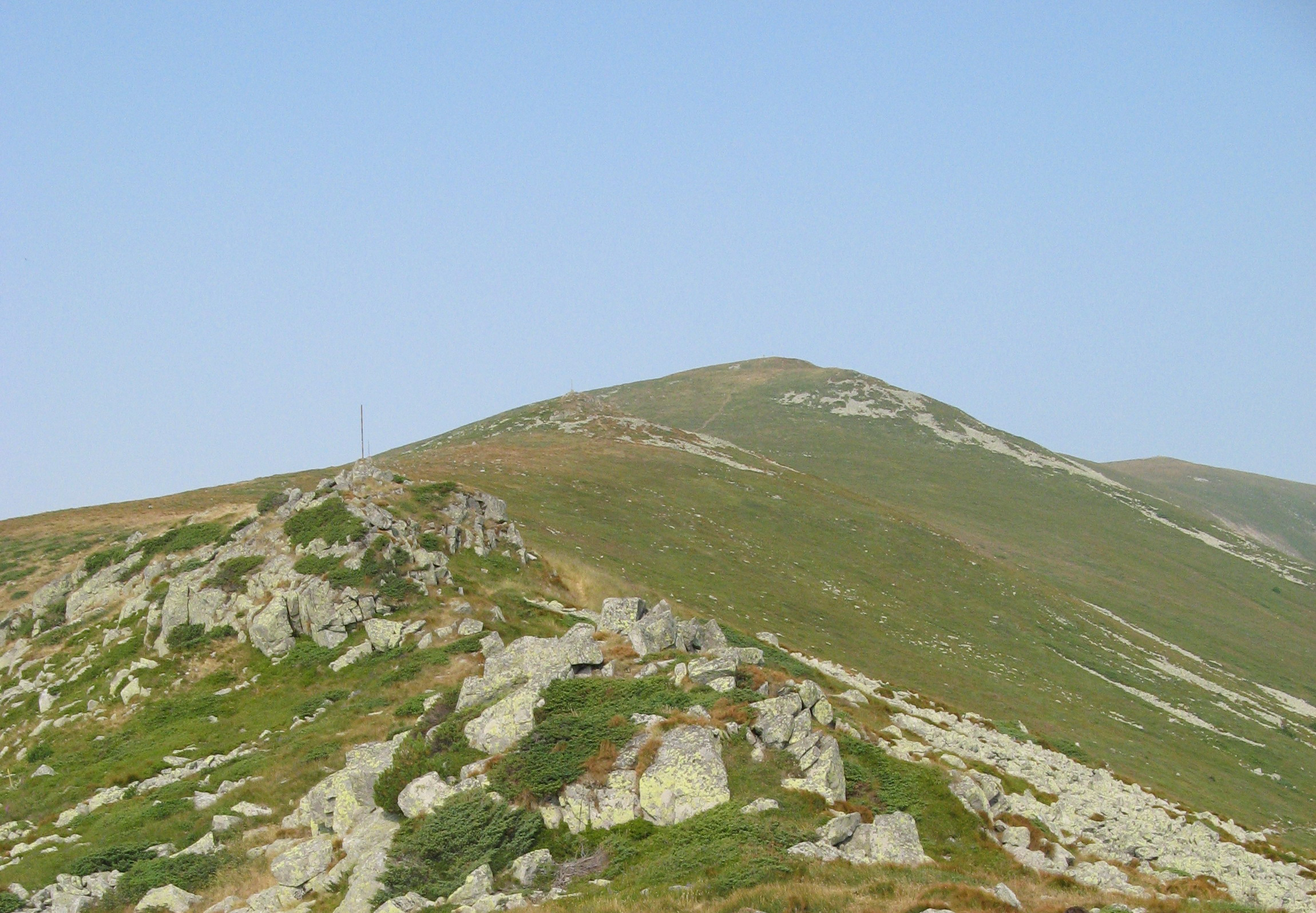 vejen peak